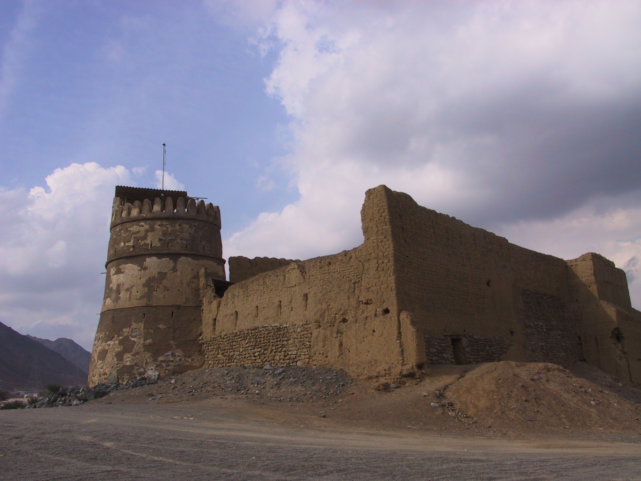 The C18th Fort at Bithnah in the Wadi Ham between Fujairah and Masafi